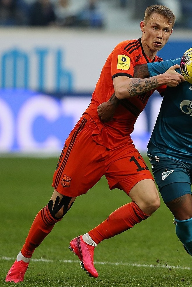 Dmitry Yefremov with FC Ural Yekaterinburg in a game against FC Zenit St. Petersburg.